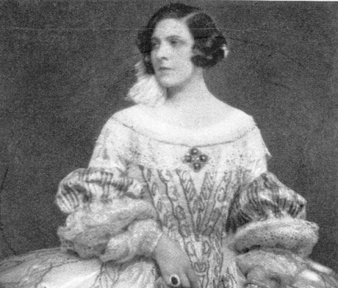 Frida Gombaszögi, Hungarian actress